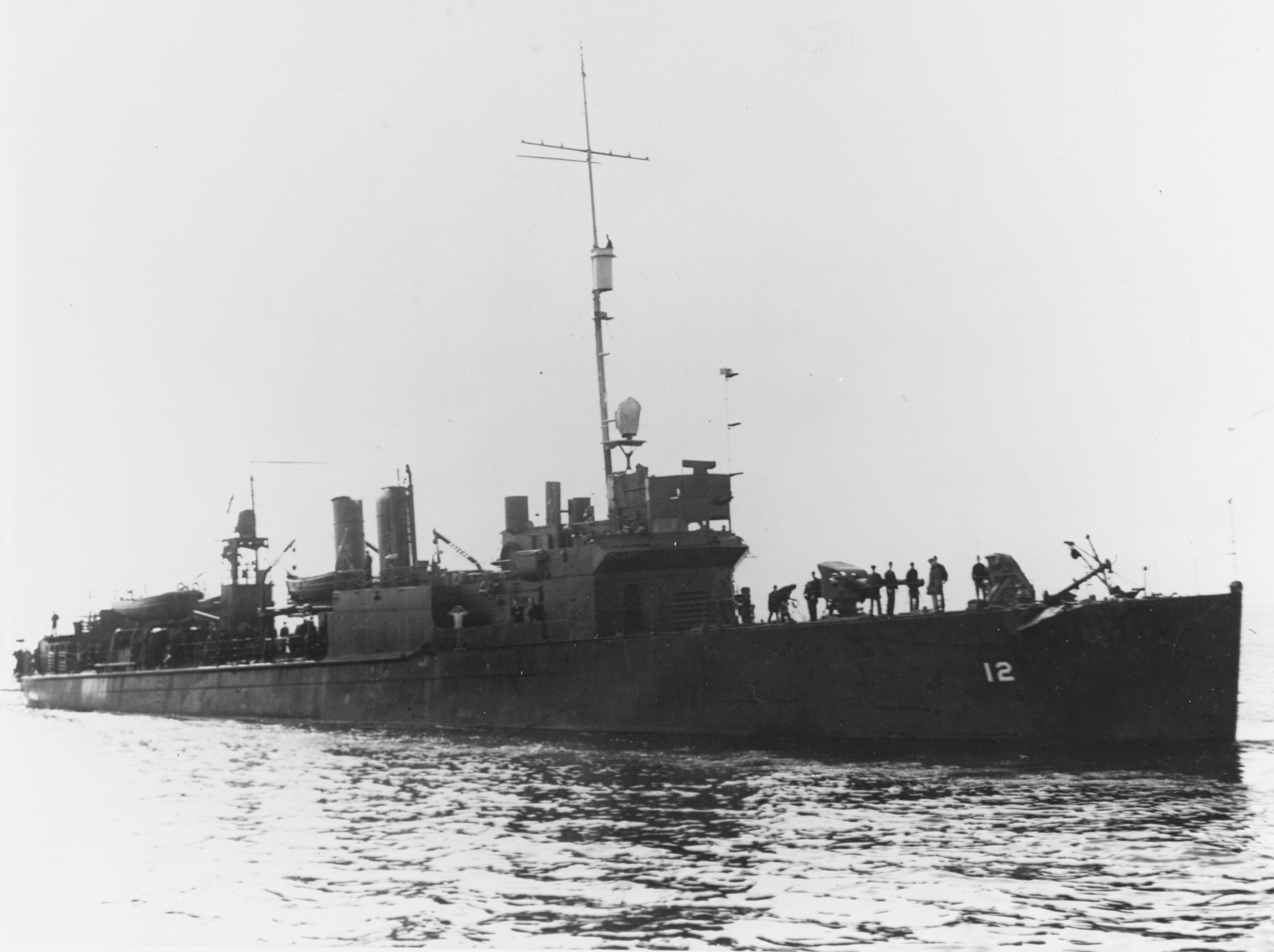 The U.S. Navy destroyer seaplane tender USS Gillis (AVD-12) on 14 February 1941. The ship appears to be painted in Camouflage Measure 1.